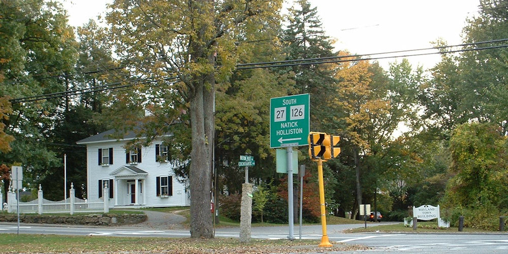 The intersection of US 20 and Routes 27 and 126 near the center of Wayland, Massachusetts.